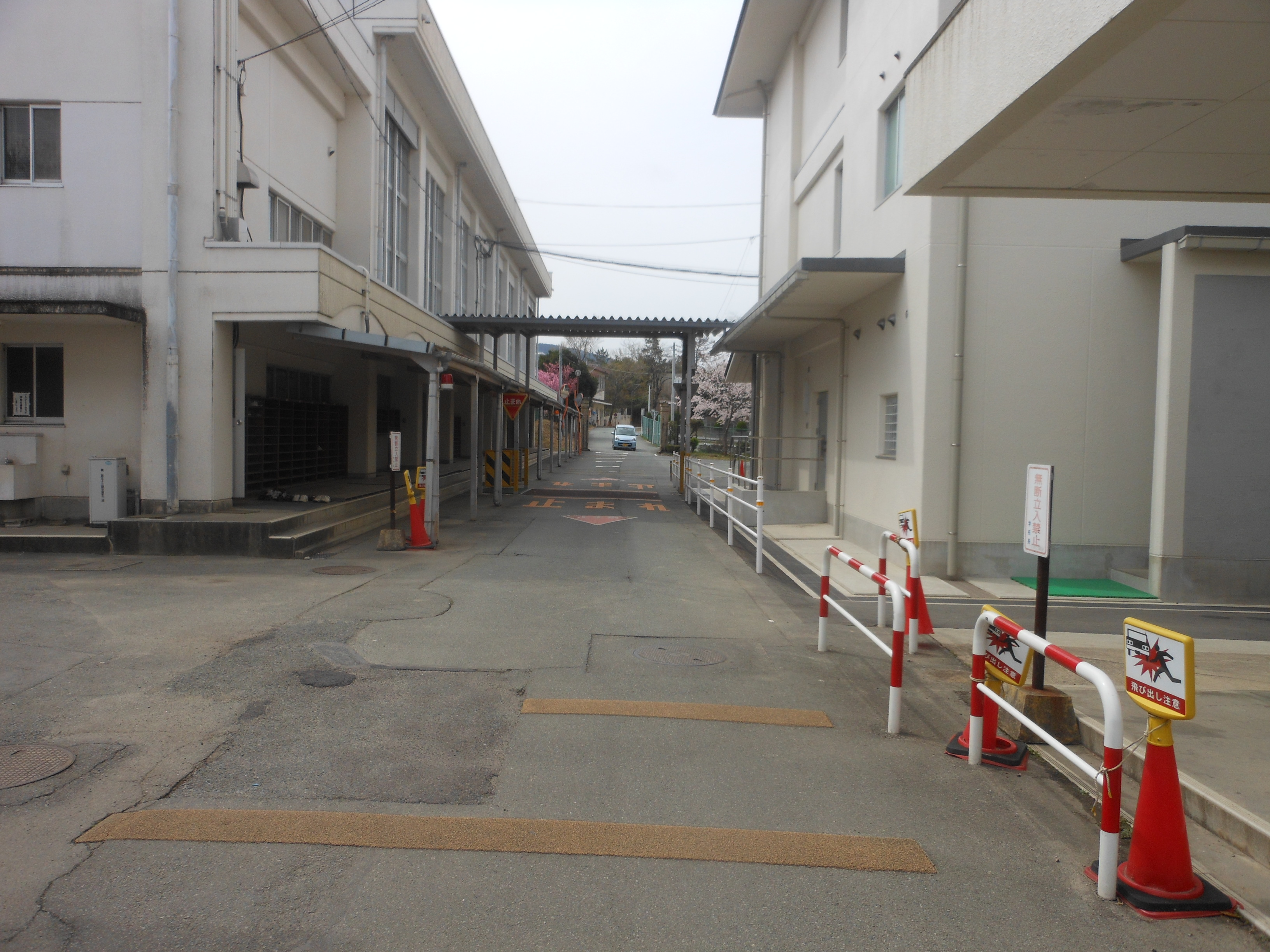 This is the public road which is through the campus of Mie prefectural Ise high school.